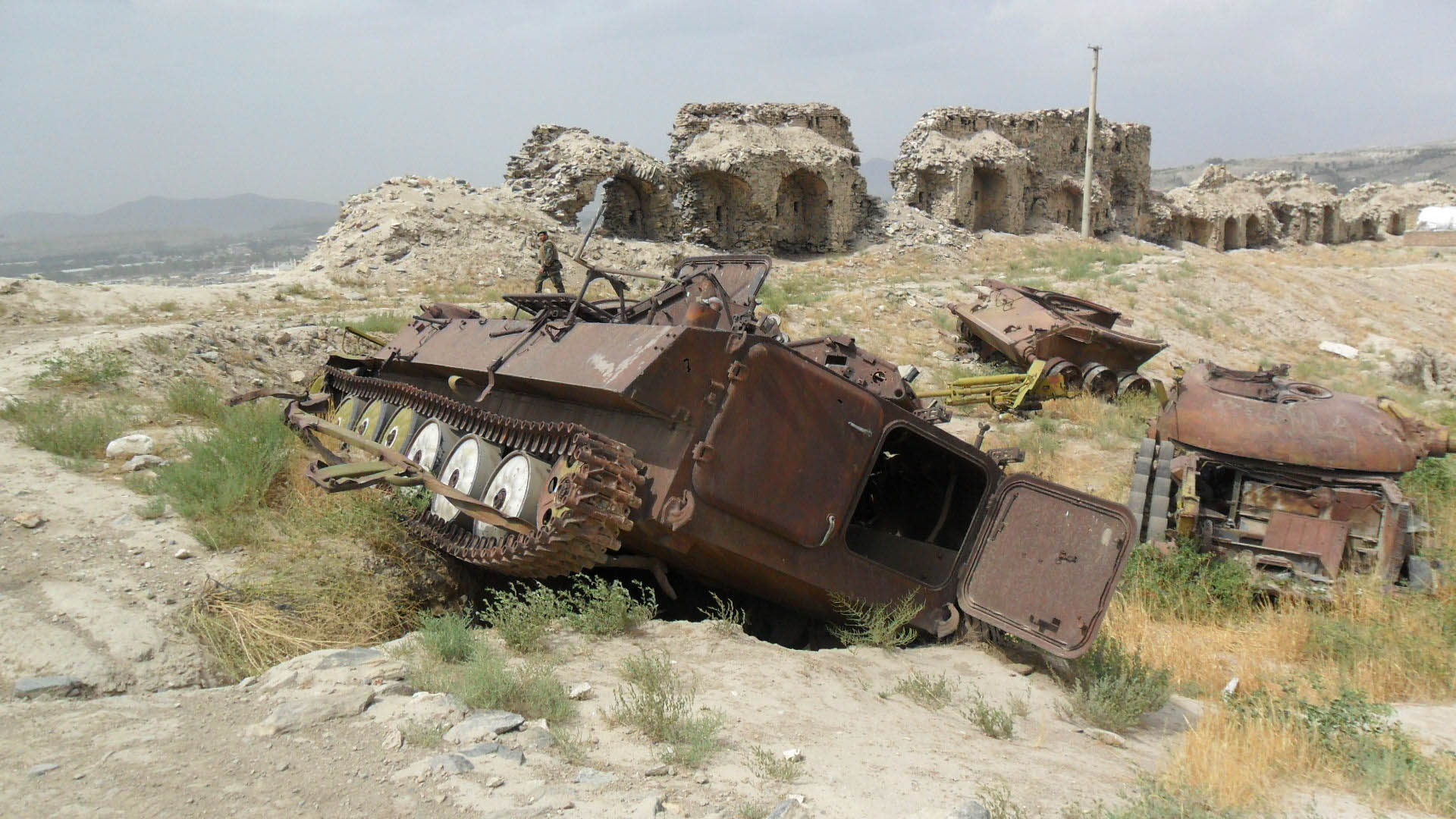 This is a view from the top of Bala Hissar, including the wall for the fort and subsequent war wreckage.